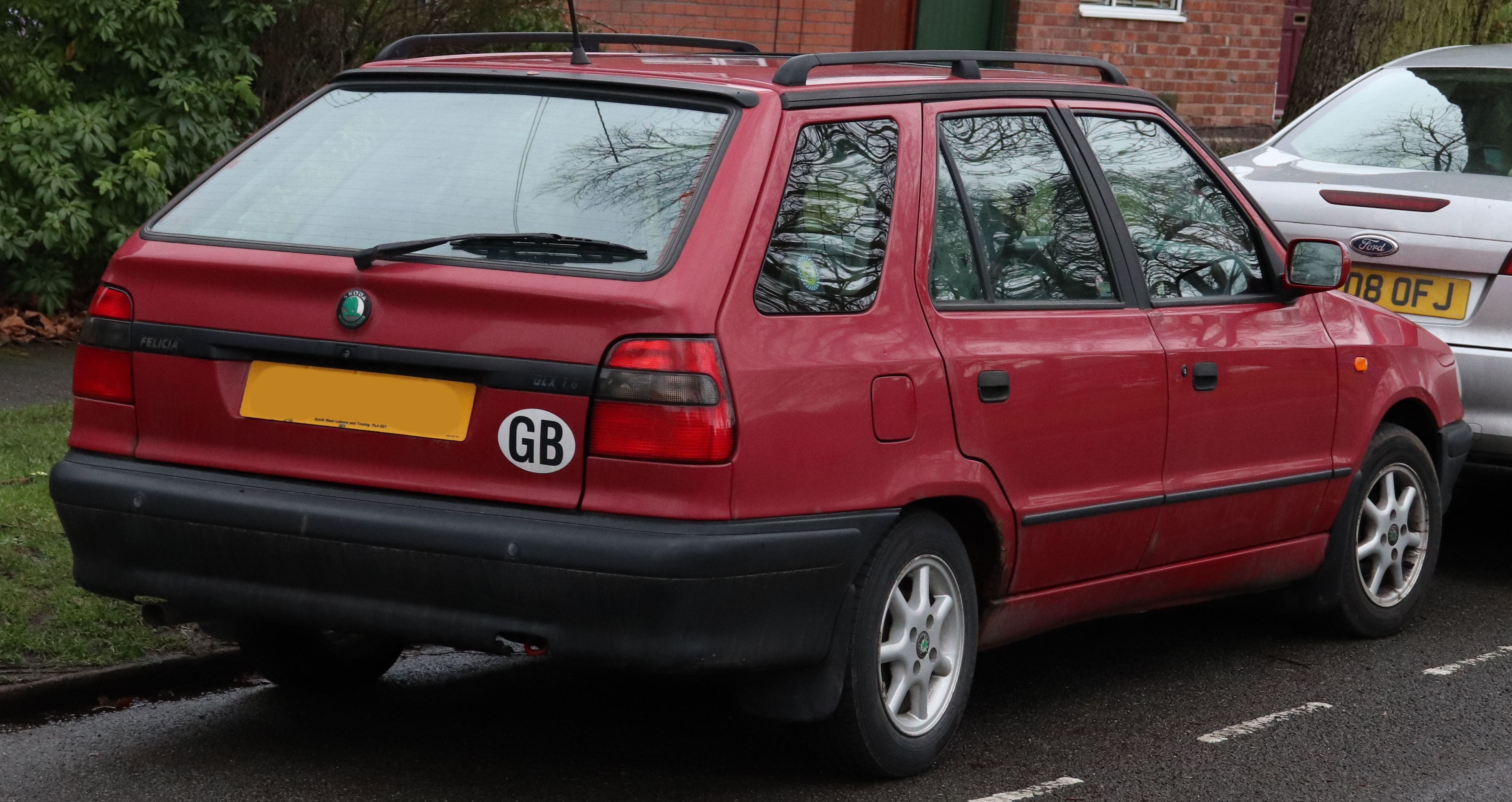 1997 Skoda Felicia GLXi Estate 1.6 Taken in Warwick